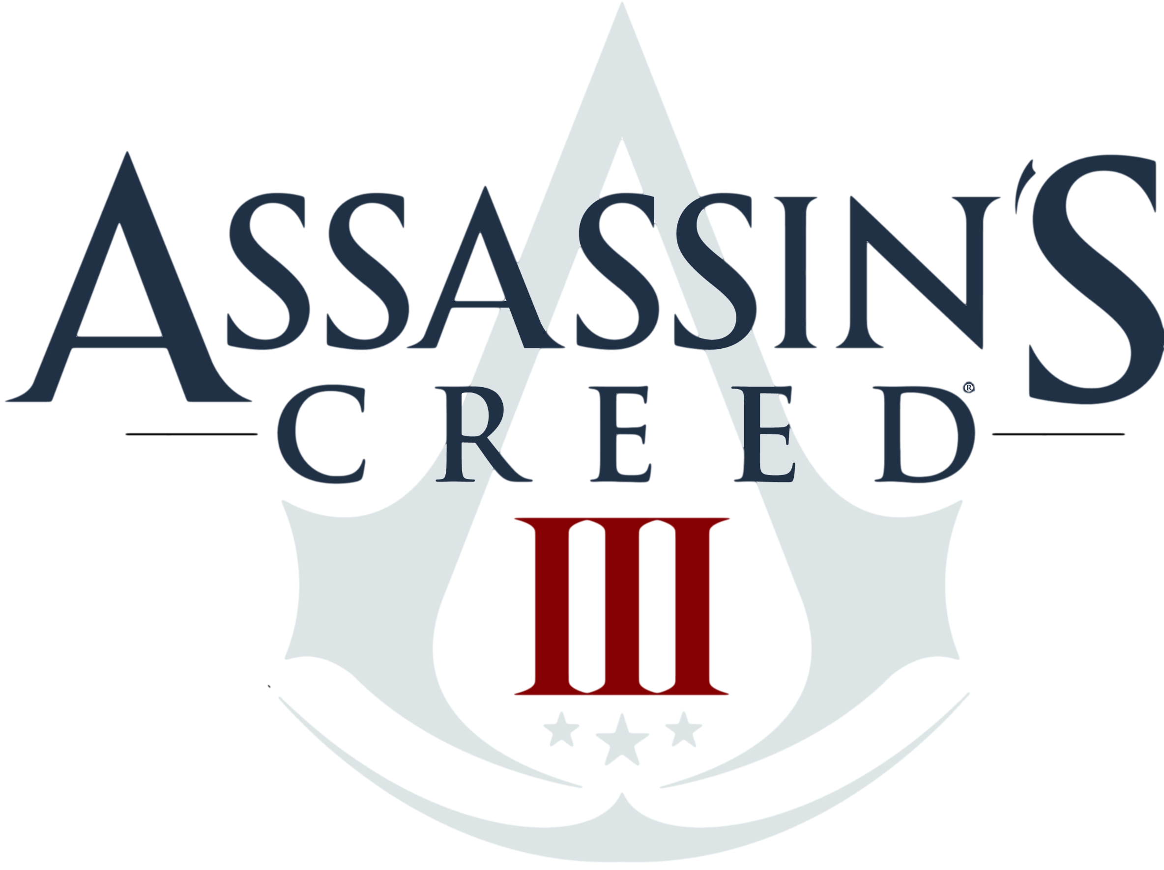 logo without background